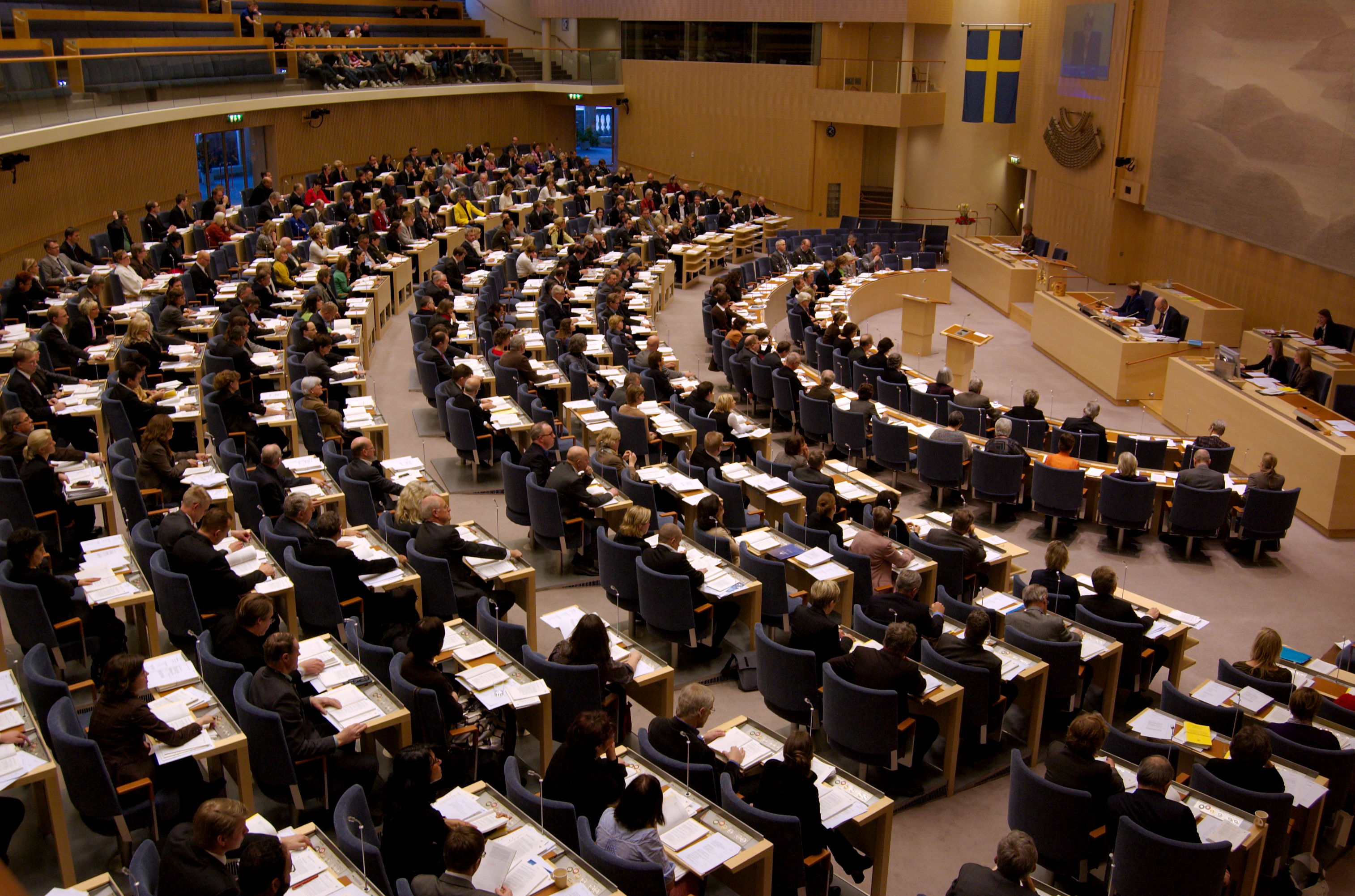 Swedish Parliament, voting for the Ipred law